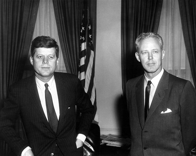 U.S. President John F. Kennedy and University of Oklahoma football coach Charles "Bud" Wilkinson in the Oval Office.